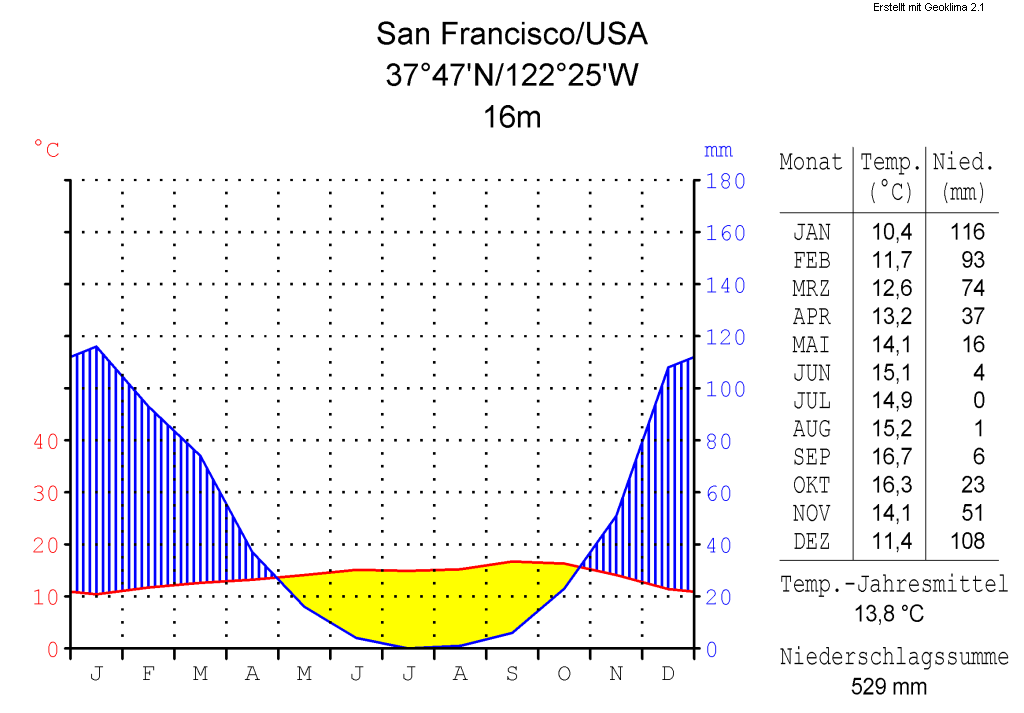 climate chart in the format by Walther and Lieth, metric, °Celsisus and millimeters, made with Geoklima 2.1